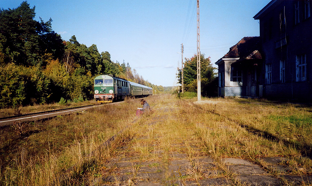 Babi Dół train station (located between Gdynia and Kościerzyna) in Kashubia, Poland.